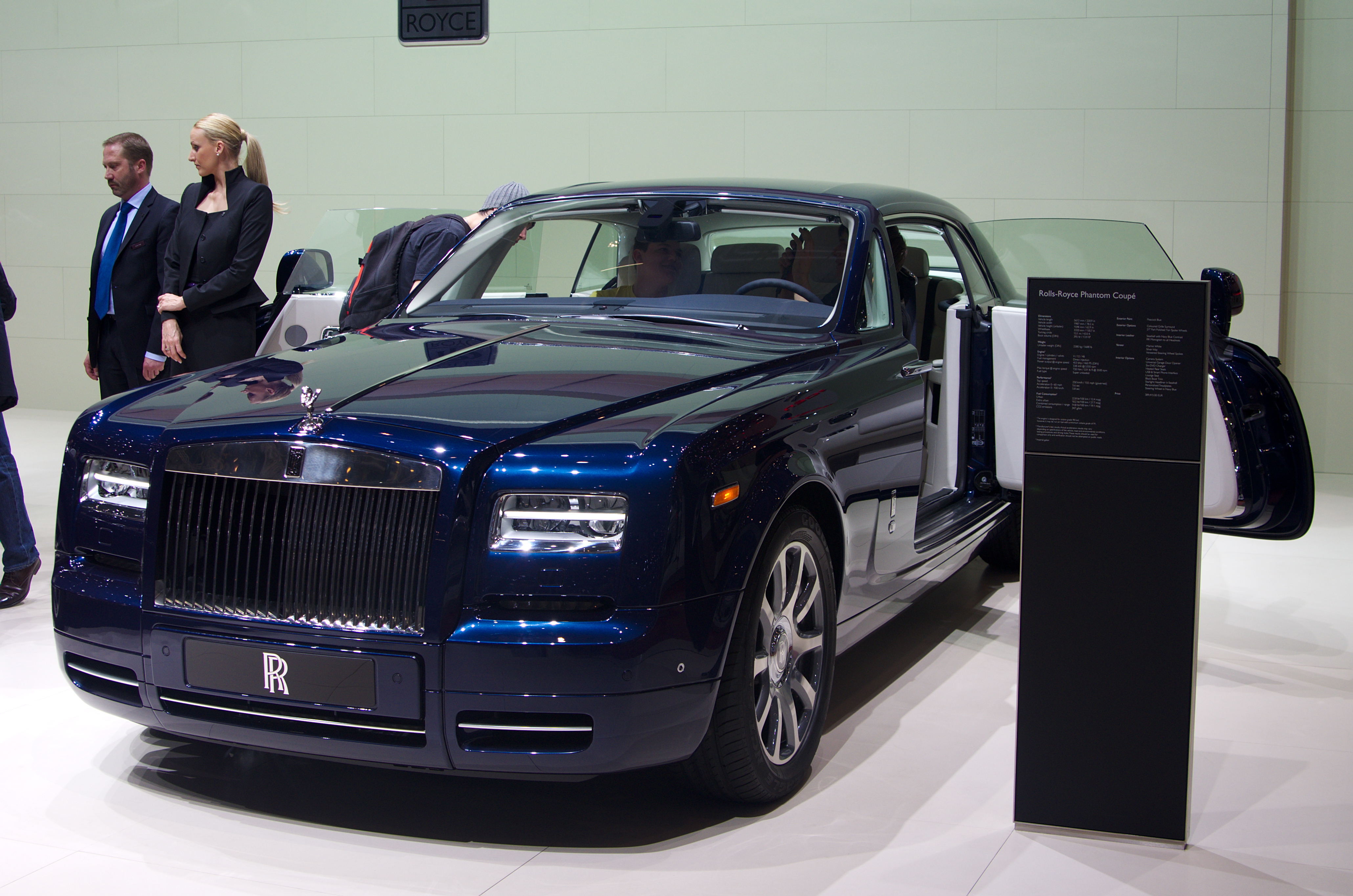 Geneva MotorShow 2013 - Rolls-Royce Phantom Coupé